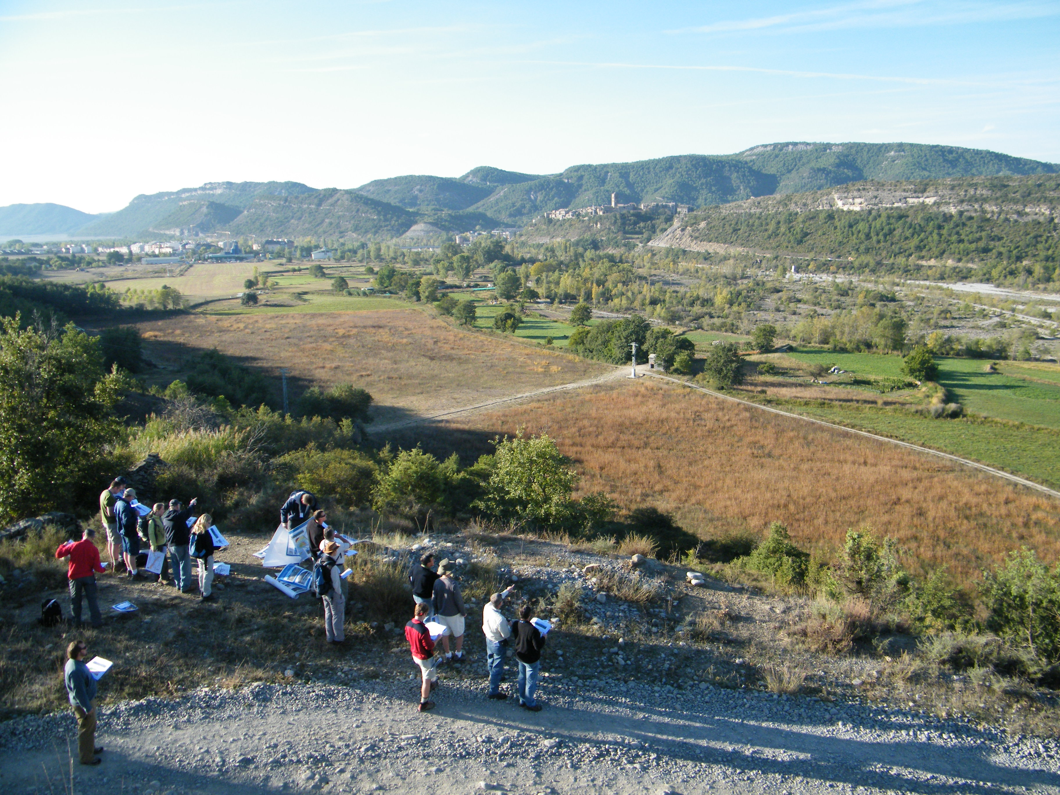 A party of geoscientists study turbidite channels in cliffside outcrops north of the ancient Spanish town of Ainsa.